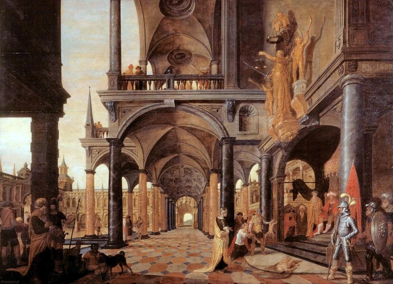 Fantasy palace with judgement of Salomon.